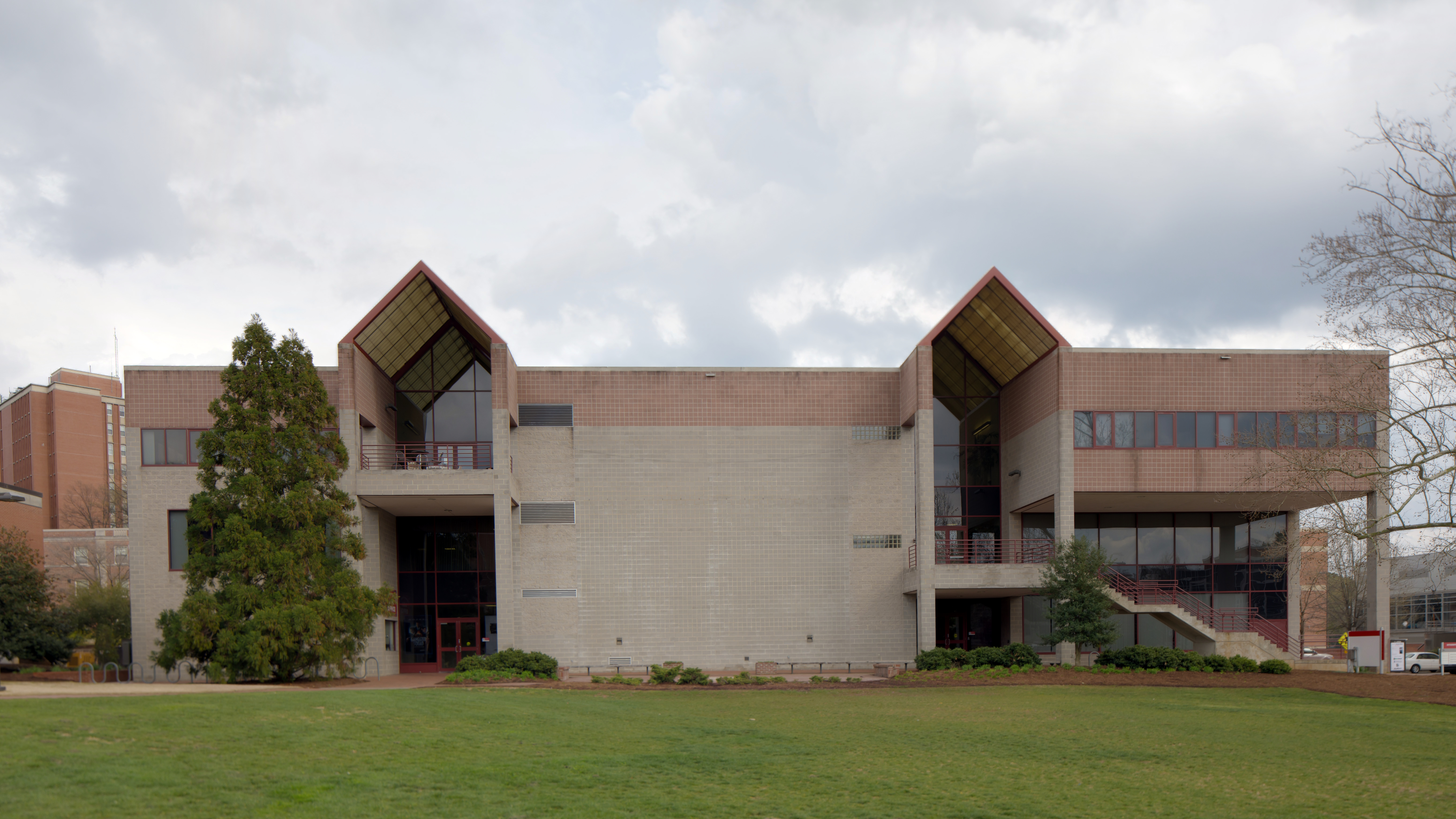 Witherspoon Student Center at NCSU Taken using a Canon 6D with Canon TS-E 24mm f/3.5L II lens.